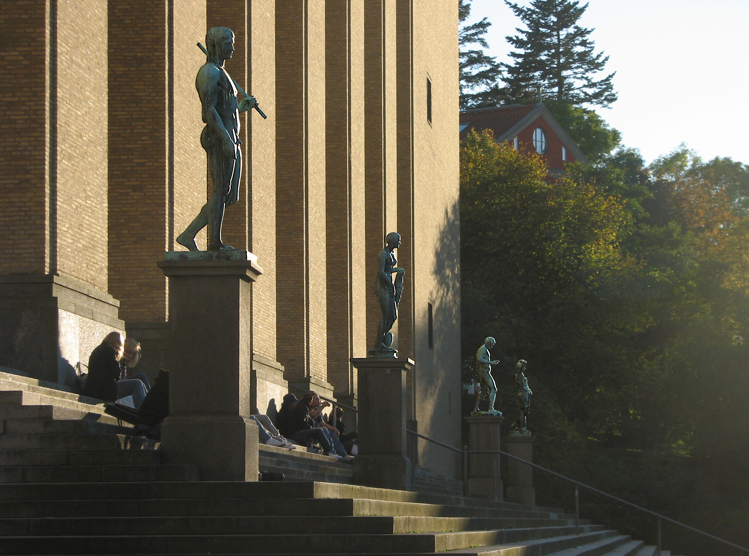 The stairs up to Konstmuseet (Art Museum) — in Göteborg, Sweden. The four bronze sculptures are copies of old Greek masterpieces. They are from left to right: Spjutbäraren by Polykleitos, Den knidiska Afrodite by Praxiteles, Diskuskastare by Alkamenes and Sårad amazon by Polykleitos.